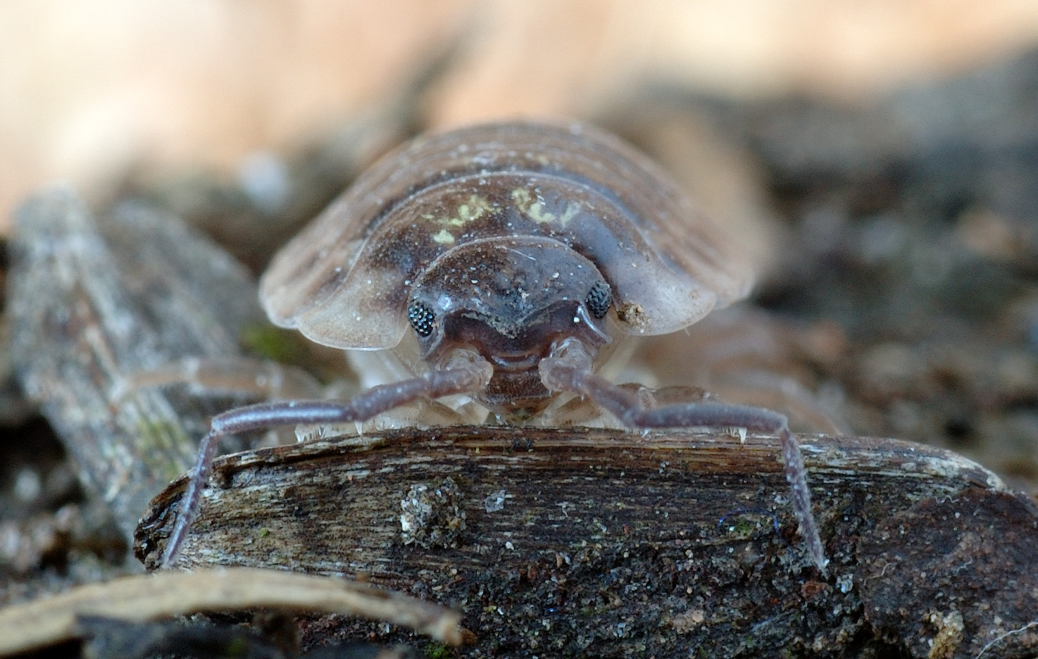 This image shows a 0.4 inch (10 mm) large male Common woodlouse (Oniscus asellus).